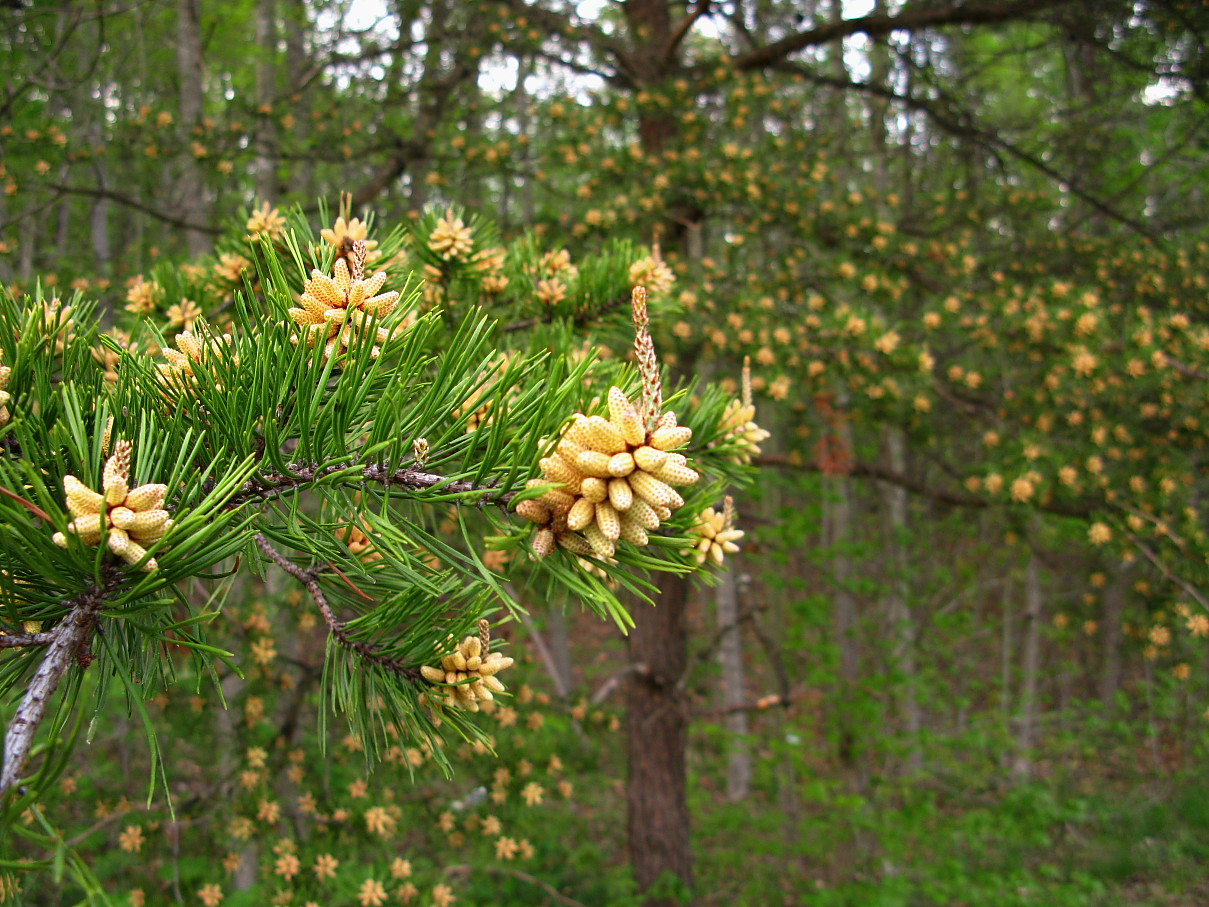 Pinus virginiana spring shoots — in the Appalachian Mountains, West Virginia.